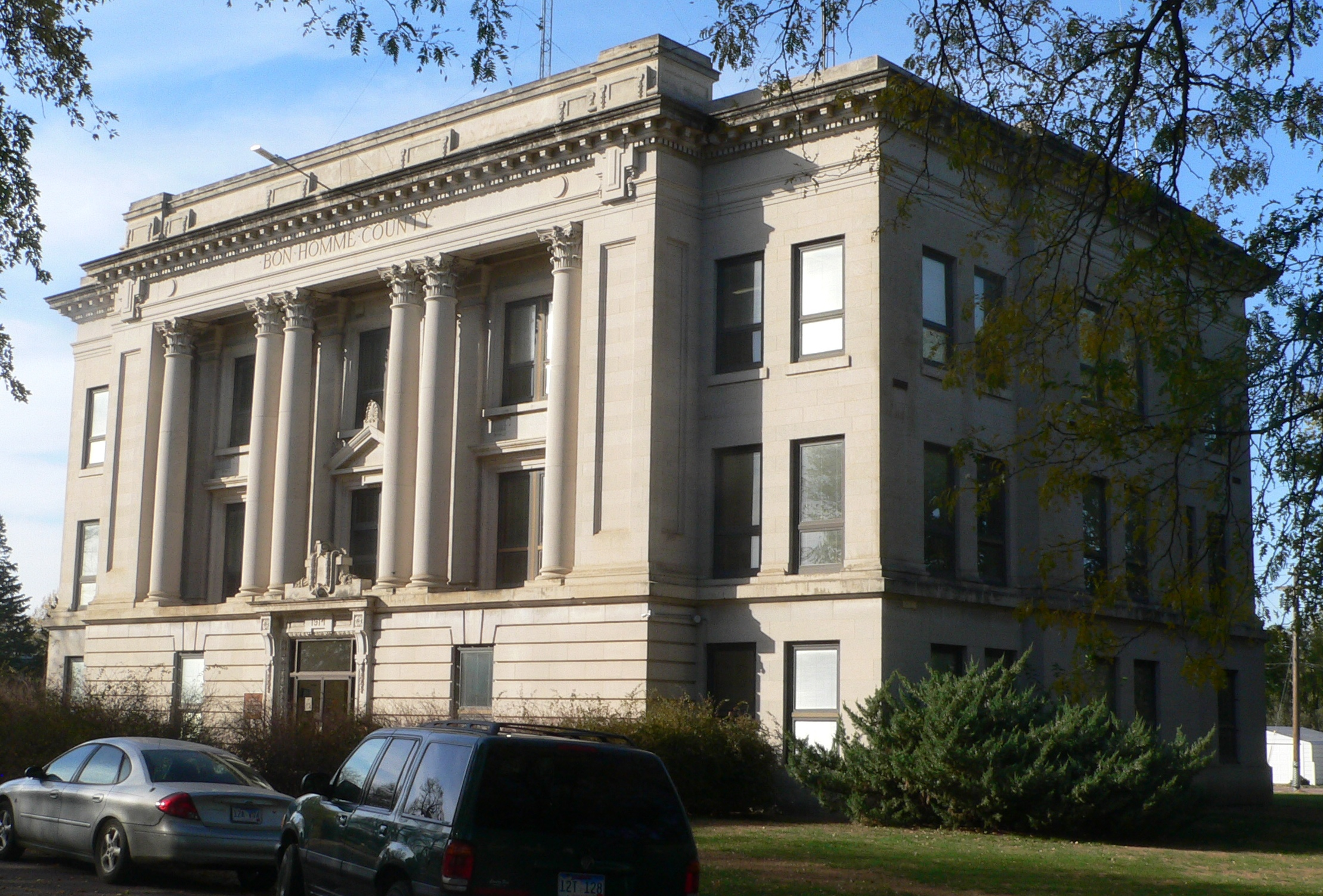 Bon Homme County courthouse, located on north side of 18th Avenue between Holly and Ivy Streets in Tyndall, South Dakota; seen from the southeast.